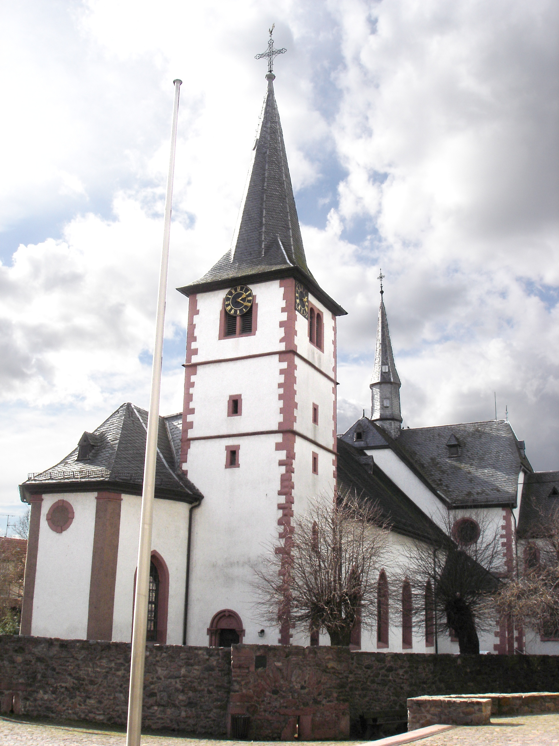 Catholic Church in Mörlenbach/Germany